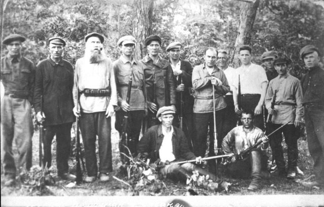 Suchan partizans